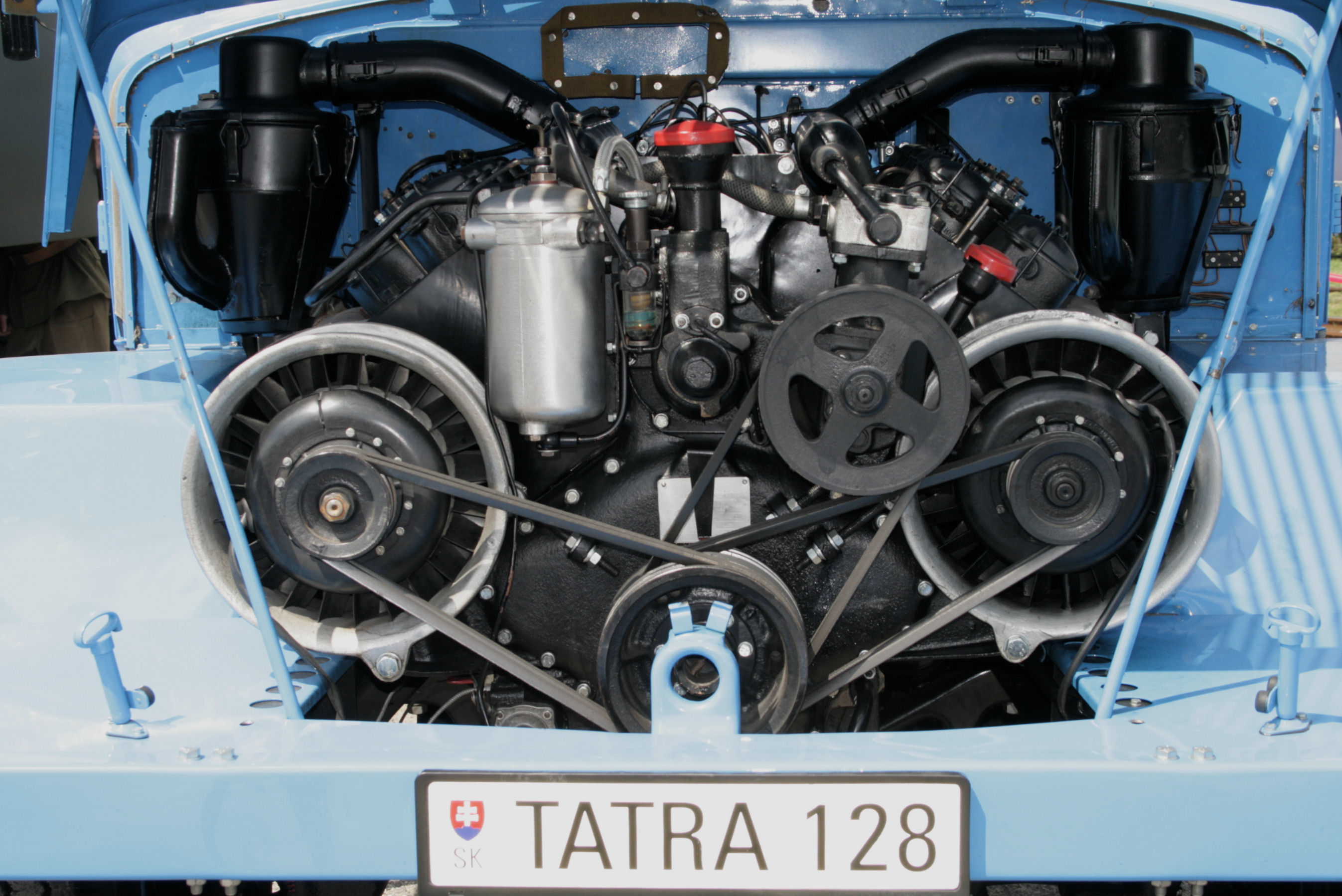 Tatra 128 engine, front view.